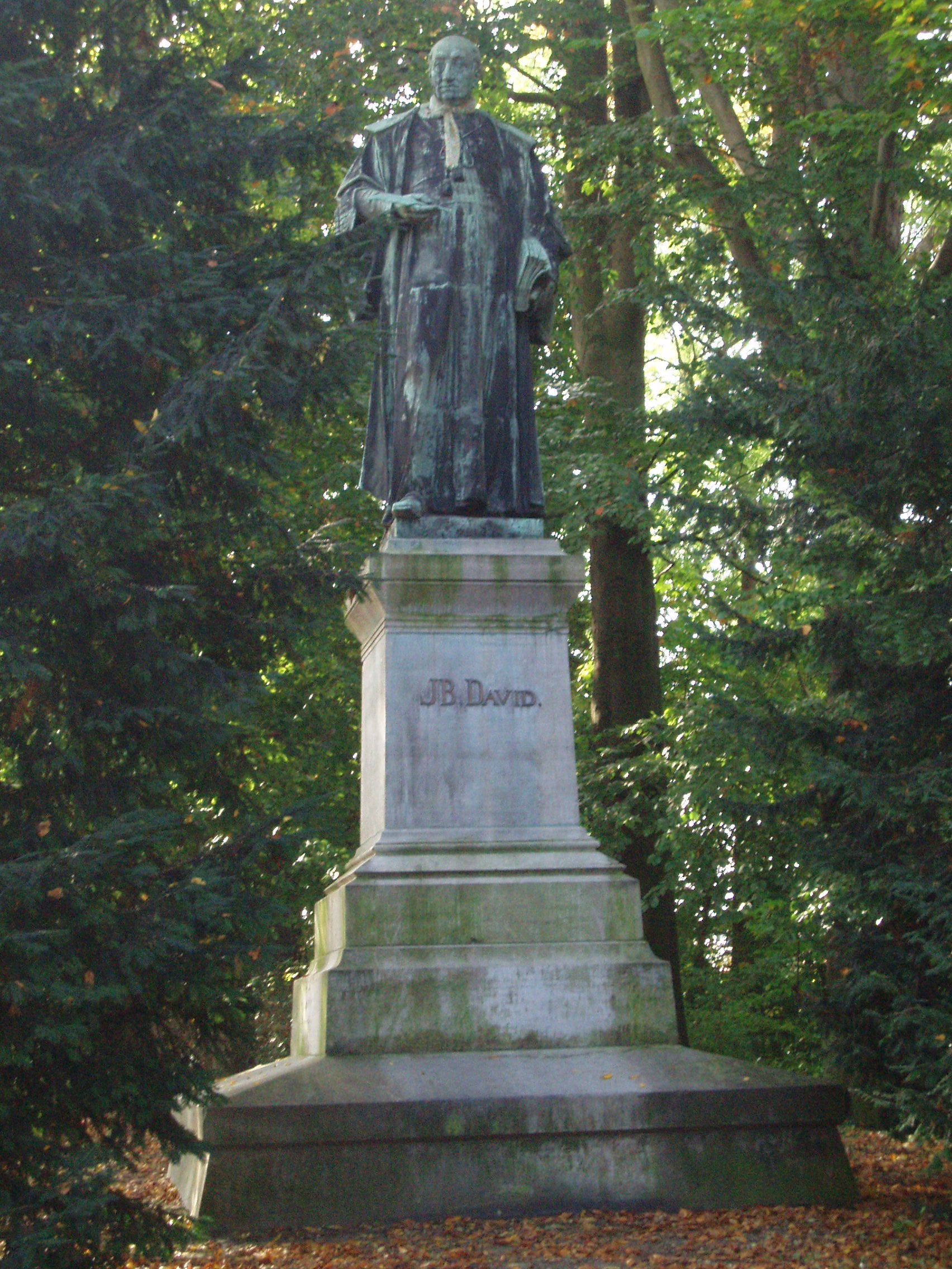 Kanunnik David